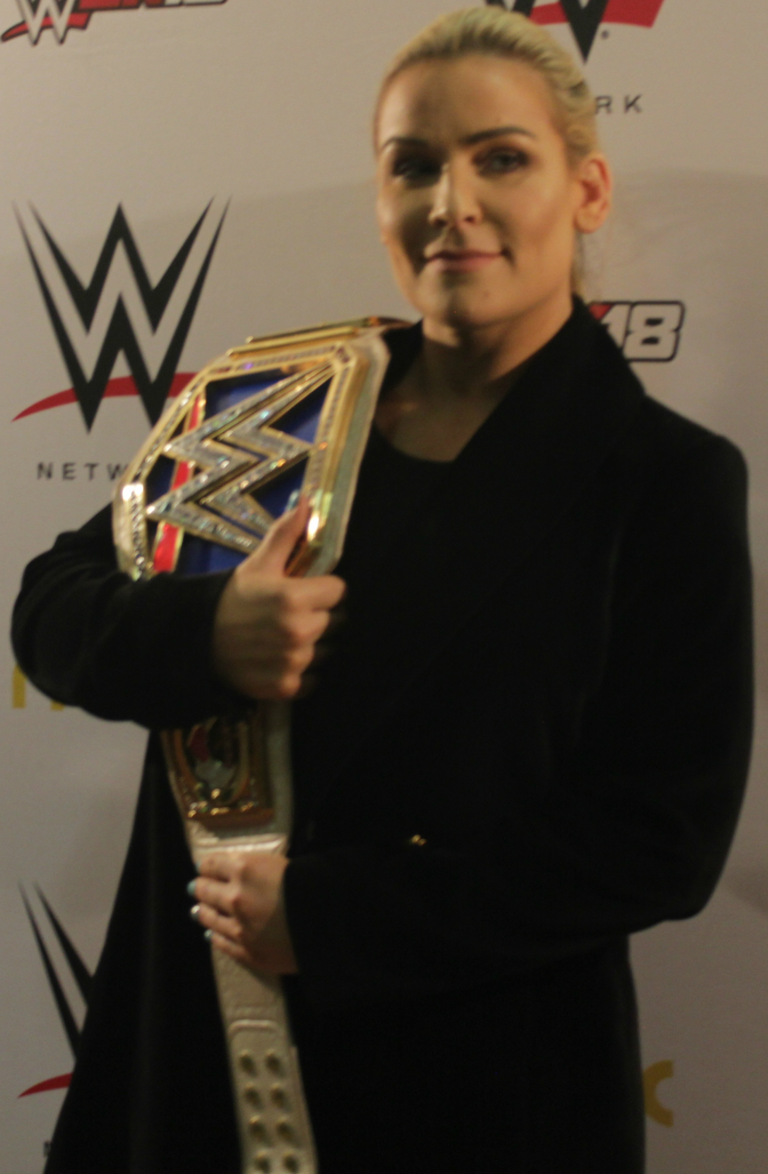 Natalya as the SD Women's Champion during a press conference in 2017, cropped from the original to focus on the subject.